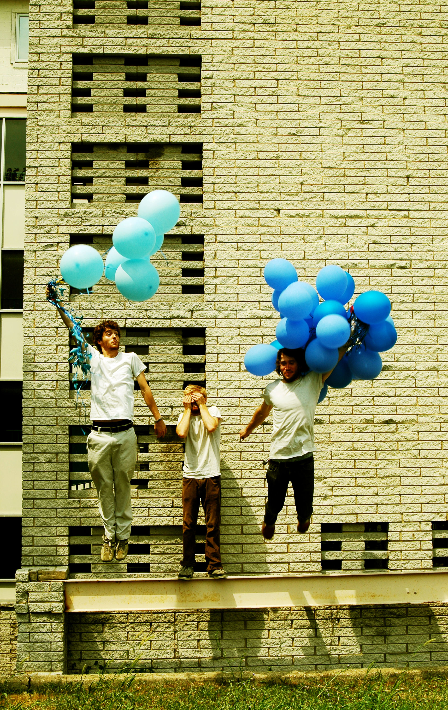 jukebox the ghost